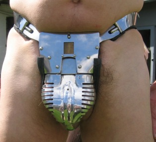 Modern male Carrara chastity-belt